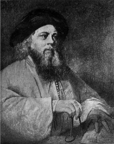 This portrait by J.S. Copley is often mistaken to be that of Rabbi Israel ben Eliezer, also known as the Baal Shem Tov. It is, in fact, a portrait of Hayyim Samuel Jacob Falk, who was known as the Baal Shem of London.